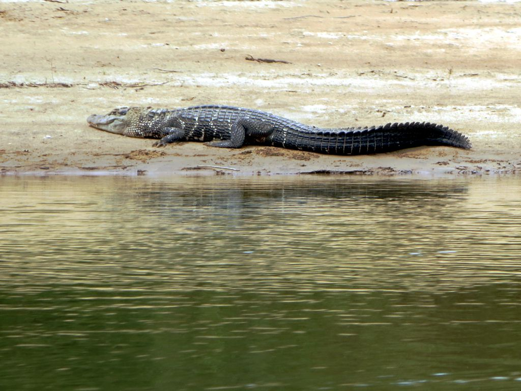 Black caiman, Rupununi River in southwestern Guyana.